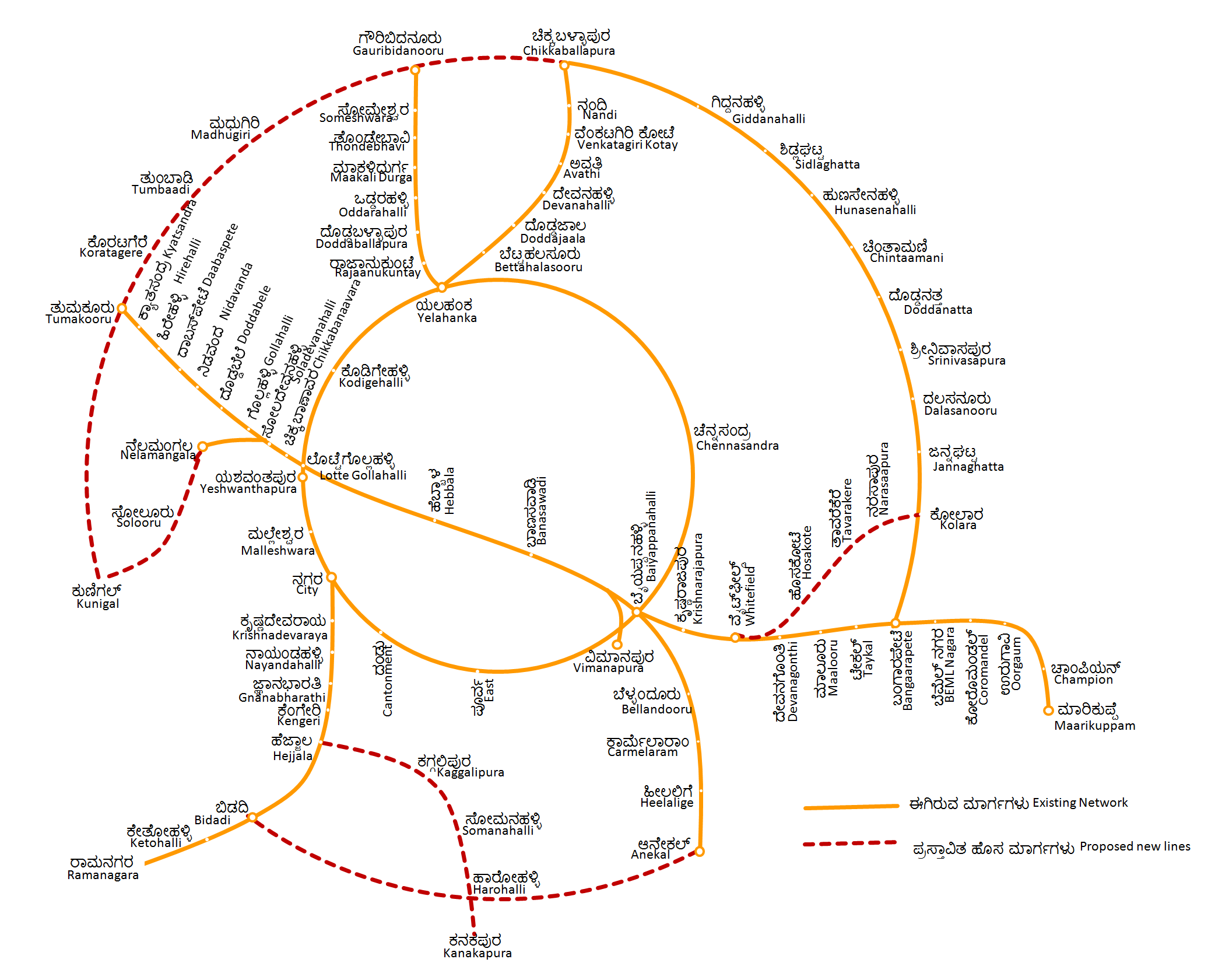 ಬೆಂಗಳೂರು ಉಪನಗರ ಹಳಿಬಂಡಿ ಜಾಲ